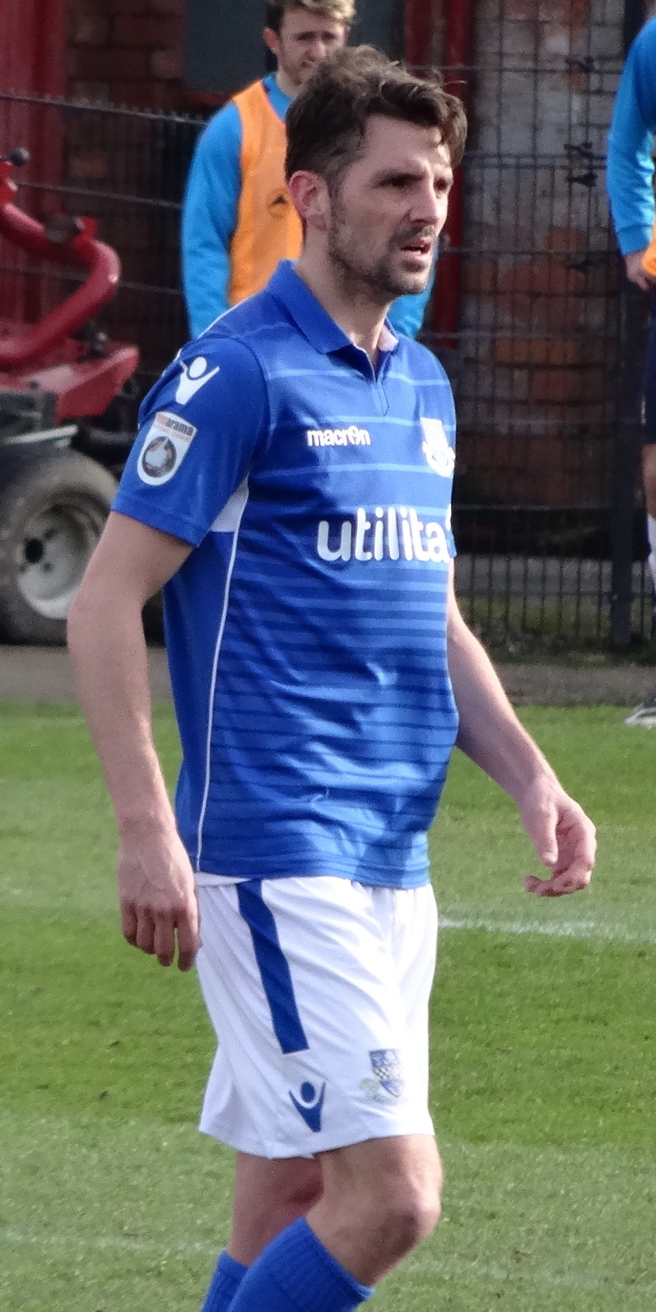 Ben Strevens playing for Eastleigh against York City at Bootham Crescent, York on 4 March 2017